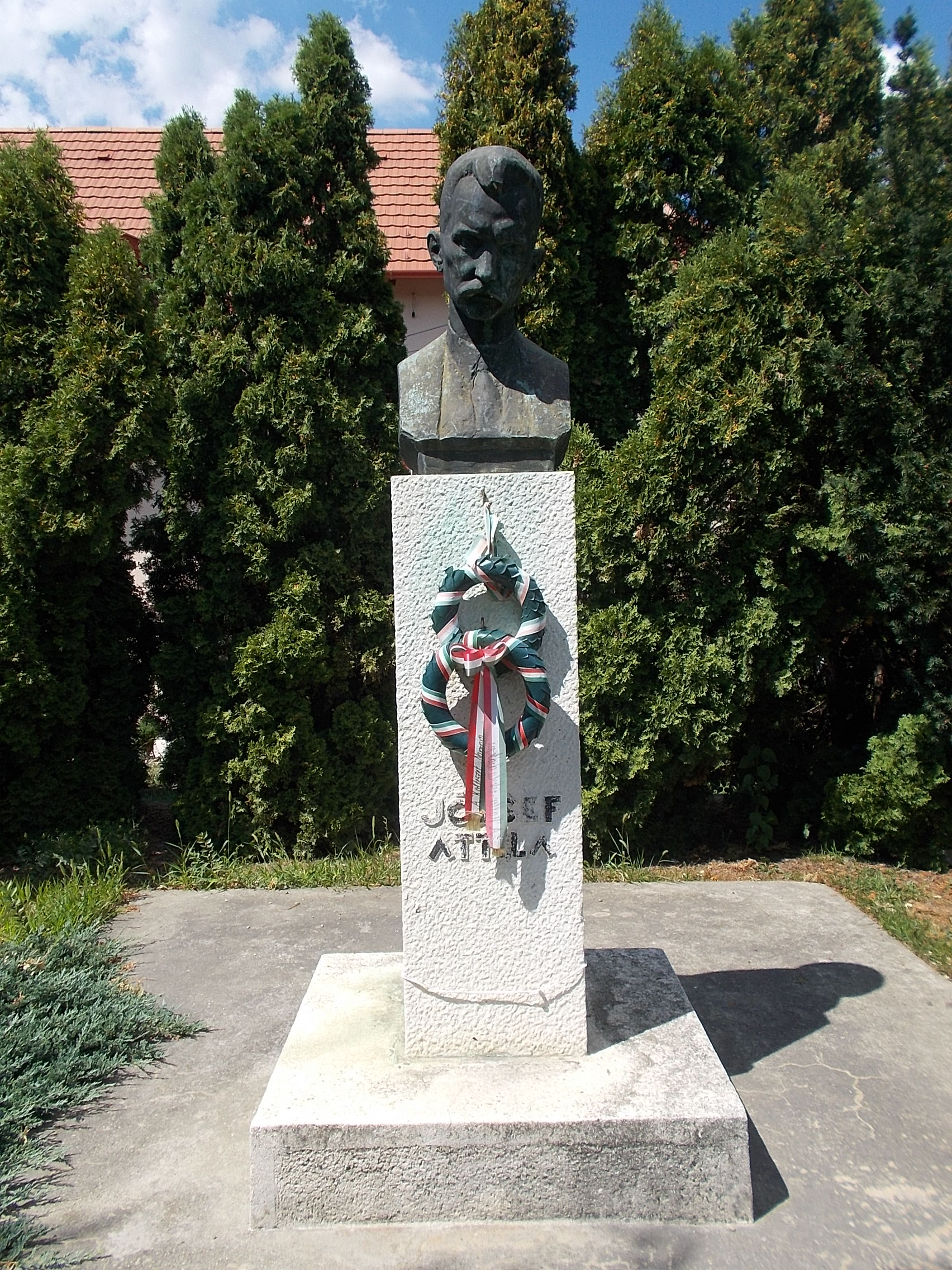 Bust of Attila József by Mihály Mészáros (1965, Bronze). -József Attila Street, Moson neighborhood, Mosonmagyaróvár, Győr-Moson-Sopron County, Hungary.